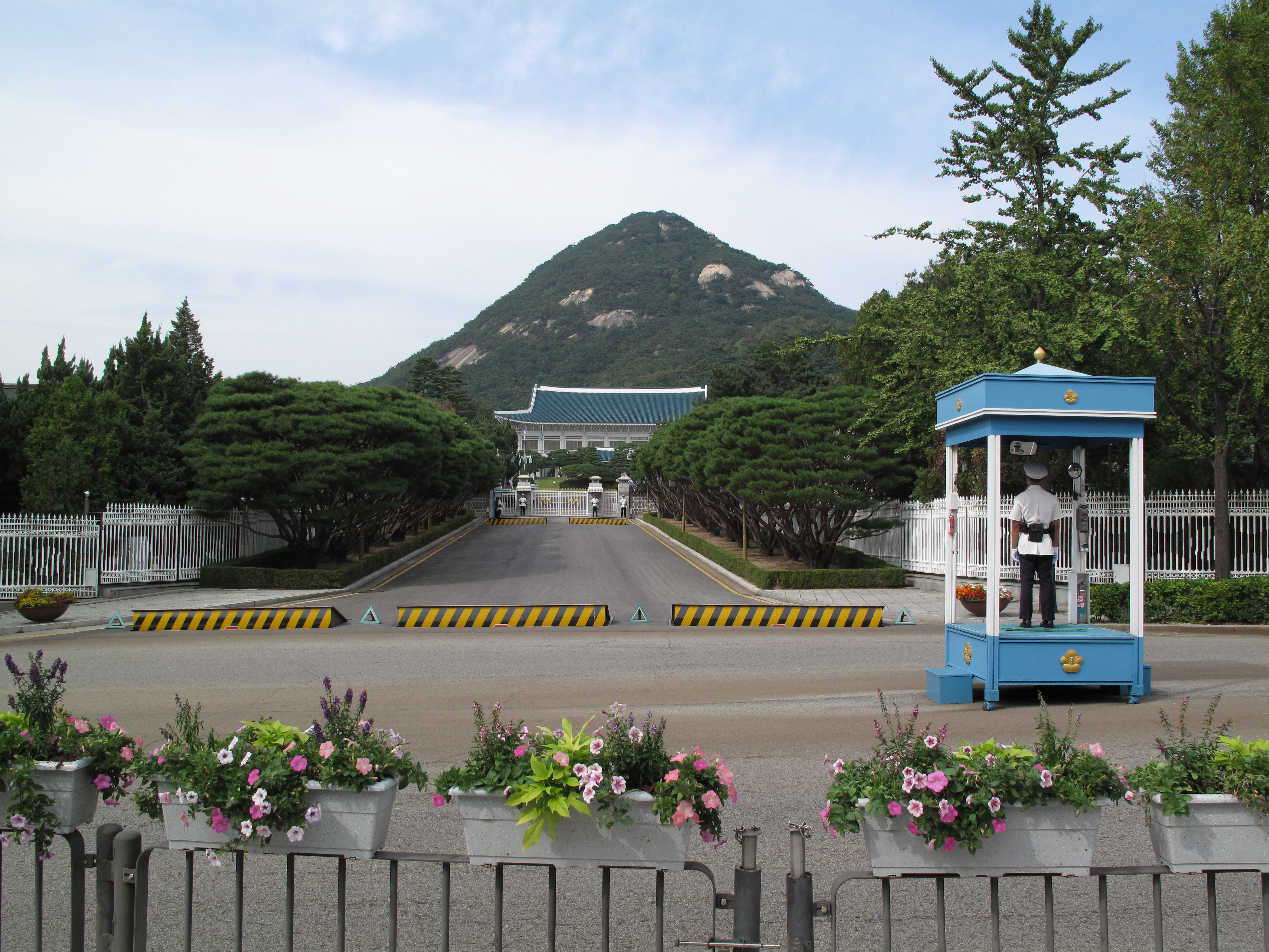 View of the Blue House from Gyeongbokgung.